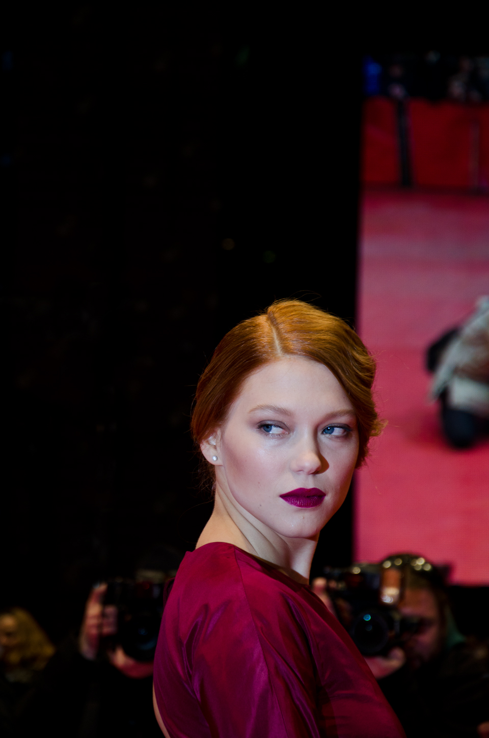 The French actress Léa Seydoux in the première of the film "La Belle Et La Bete" at the 64th Berlin International Film in 2014.